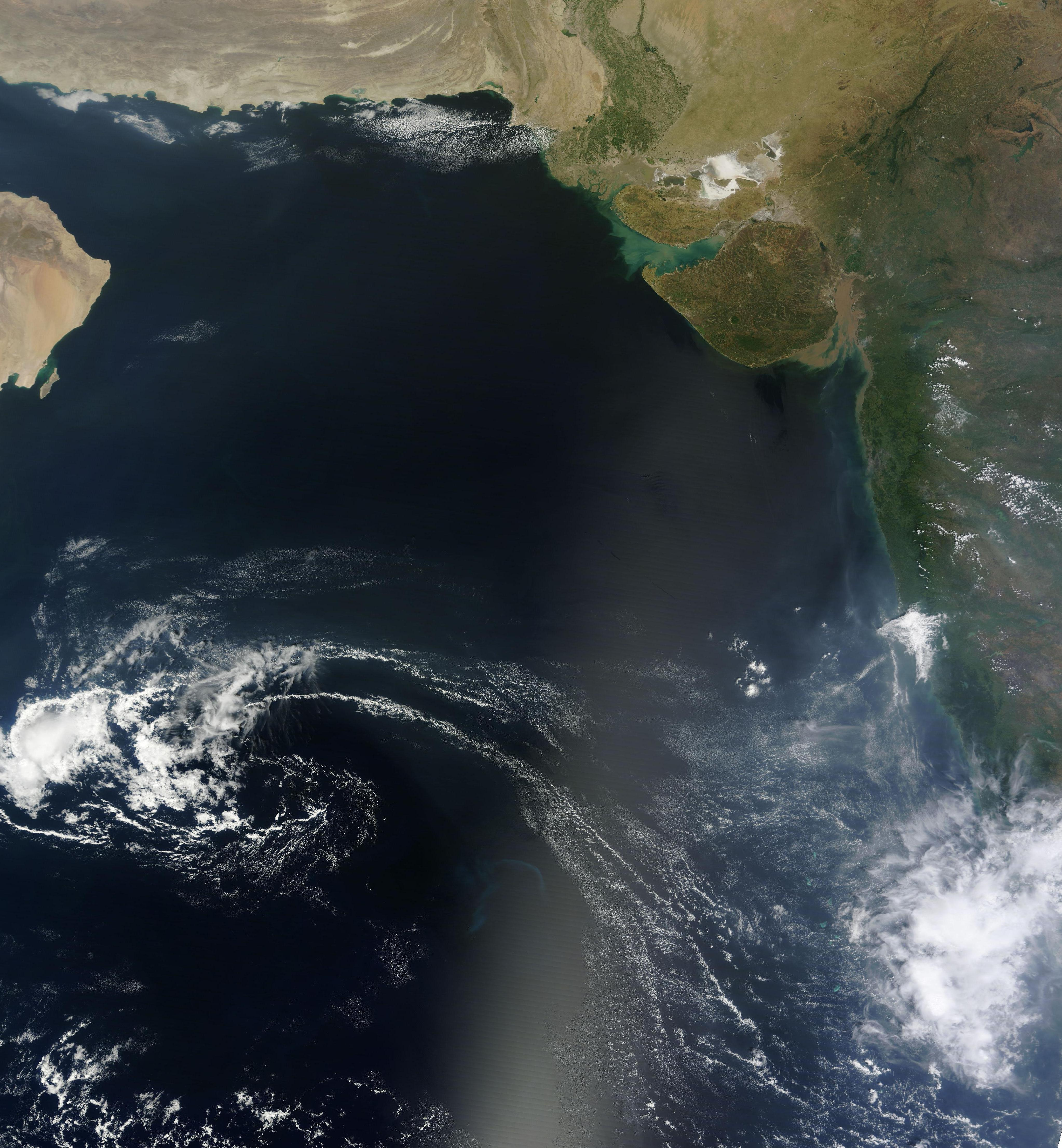 A satellite imagery of the Arabian Sea on October 12, 2012